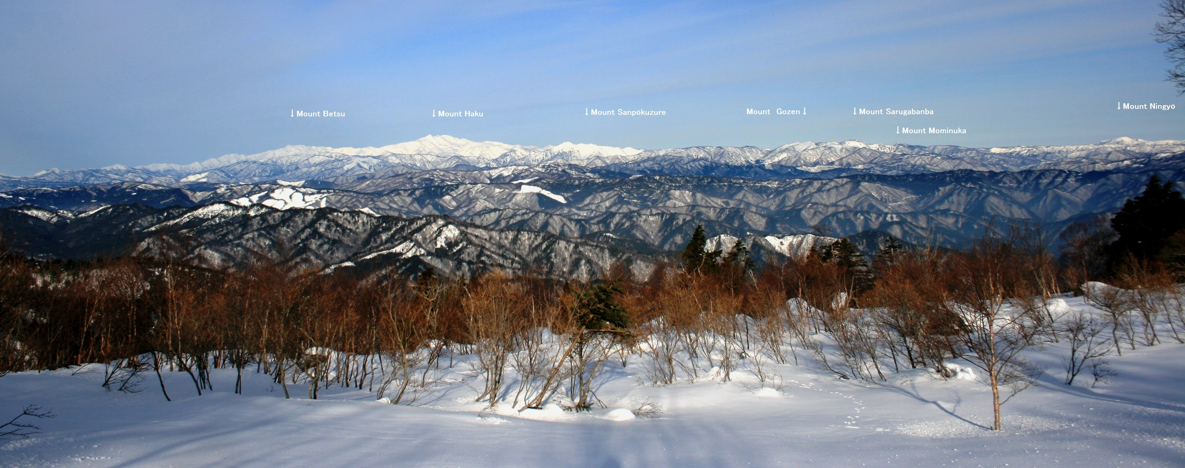 Ryohaku Mountains from Mount Kurai